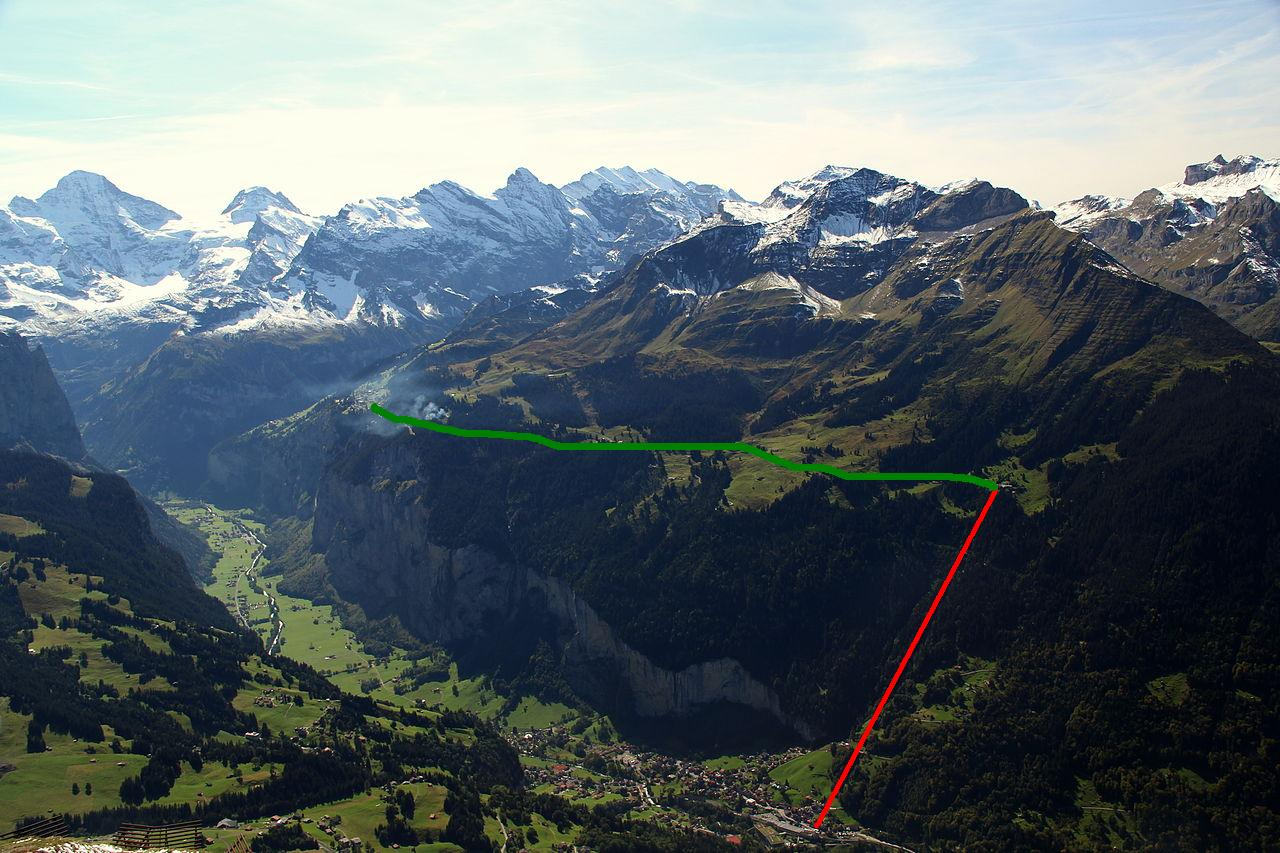 Route of the Bergbahn Lauterbrunnen-Murren, with the cablecar section marked in red and the rail section in green. For more information, see Wikipedia article Lauterbrunnen–Mürren mountain railway.